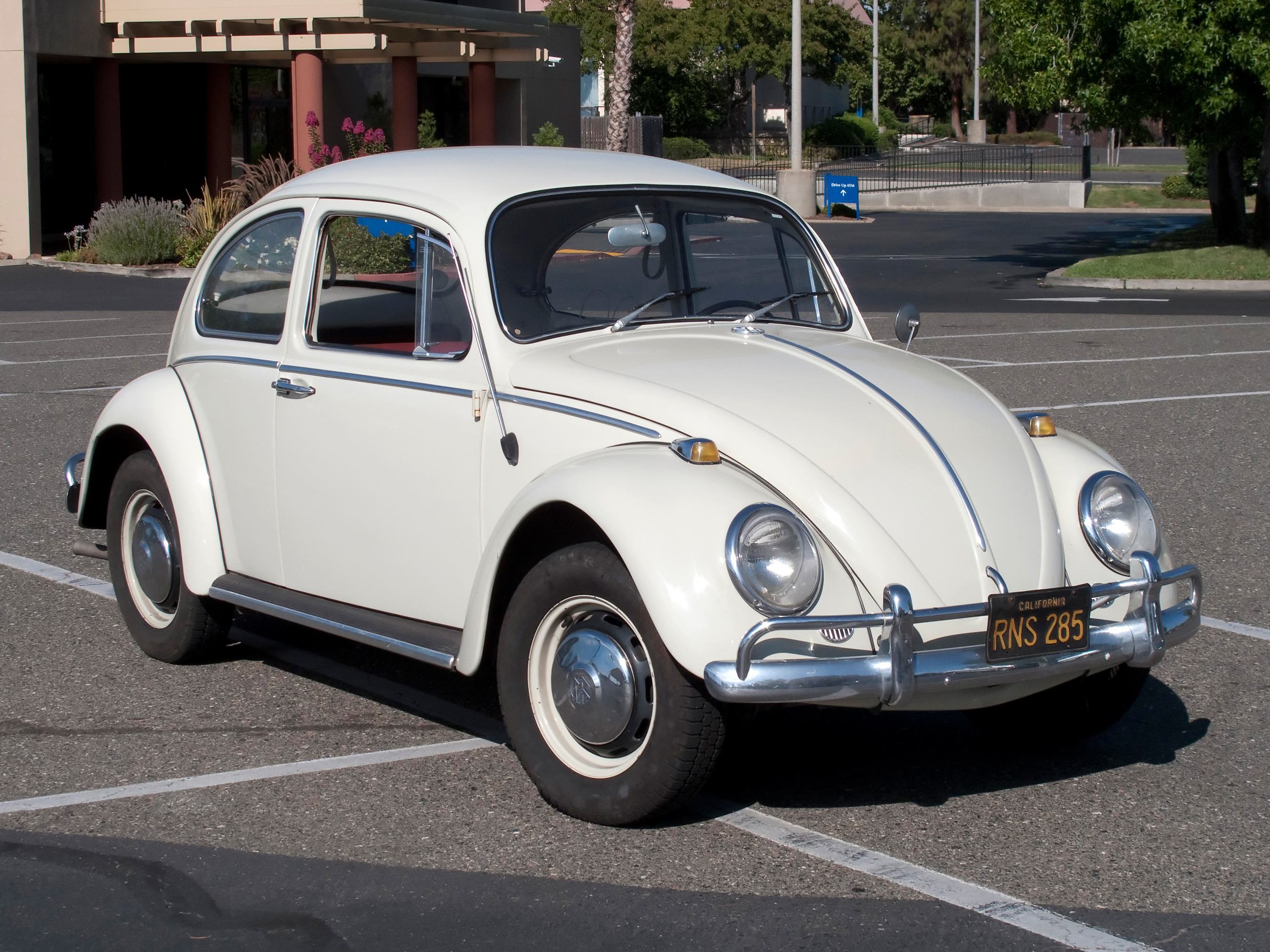 No reason - just thought it was a cute Bug.